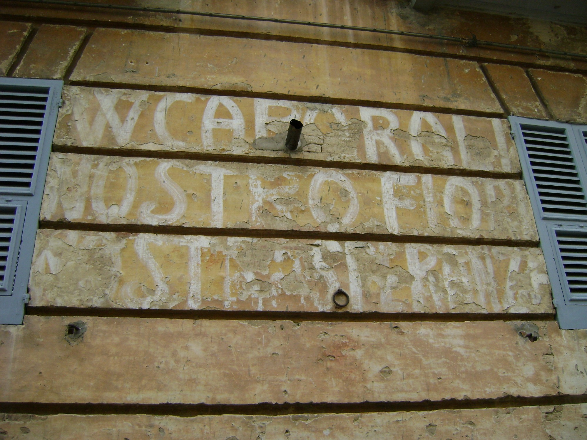 Inscription fascist that hymns Raffaele Caporali, physician and senator, on a wall of Crognale square in Castel Frentano, province of Chieti.